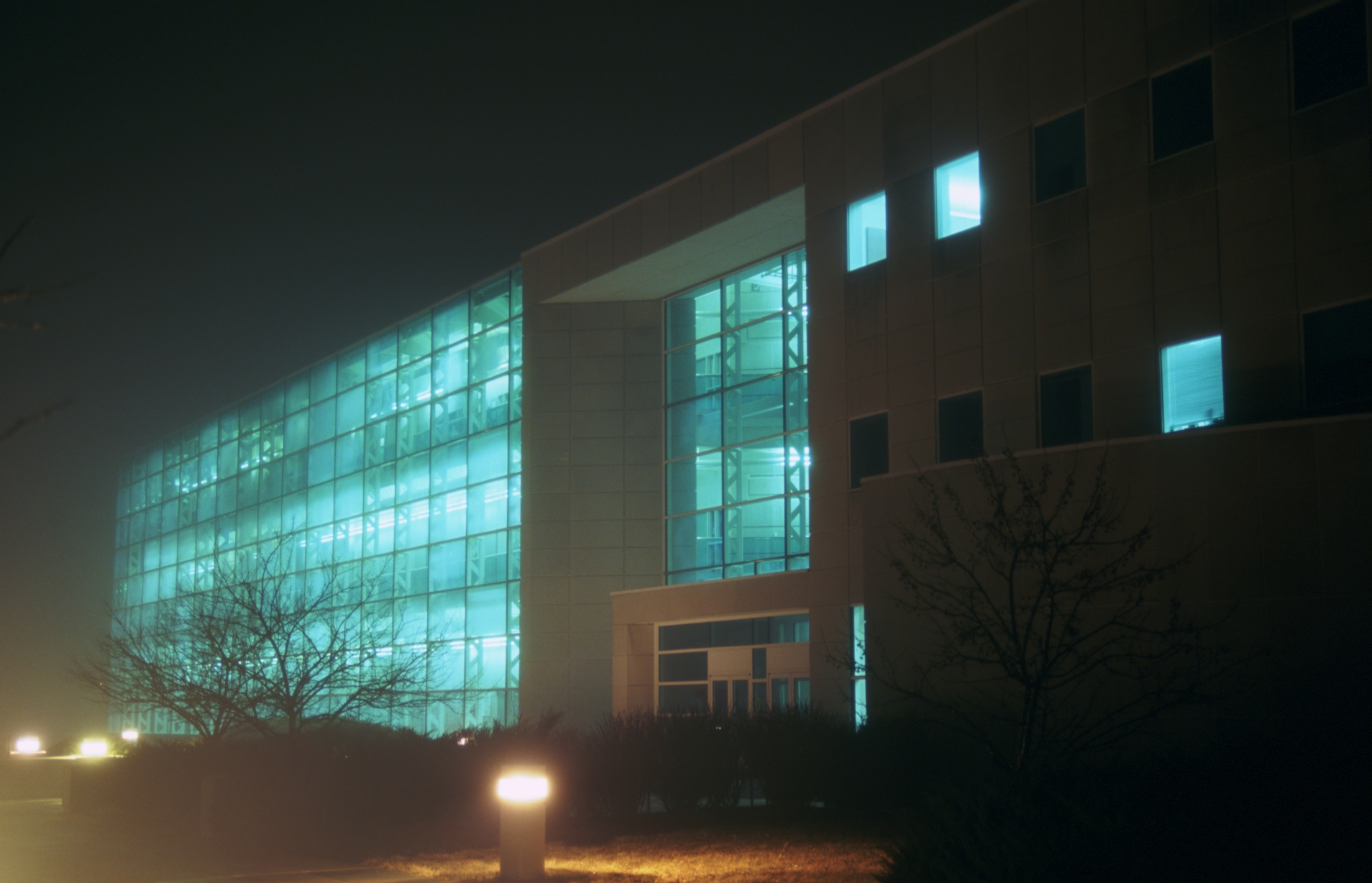 This is the main building of the SIUE School of Engineering as seen at night.